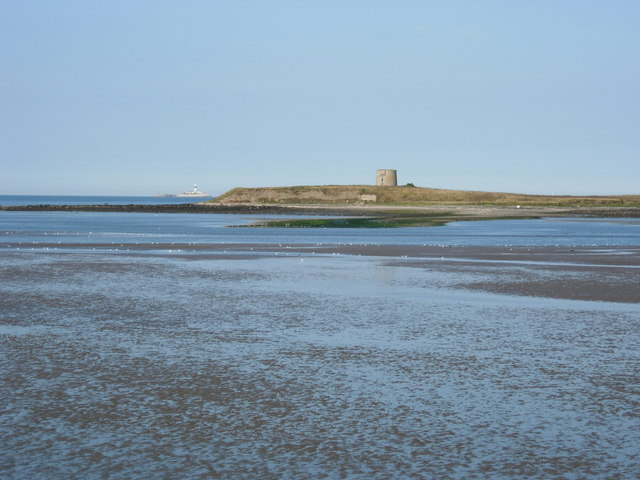 Shenick's Island Rockabill Lighthouse O3262 can be seen in the background